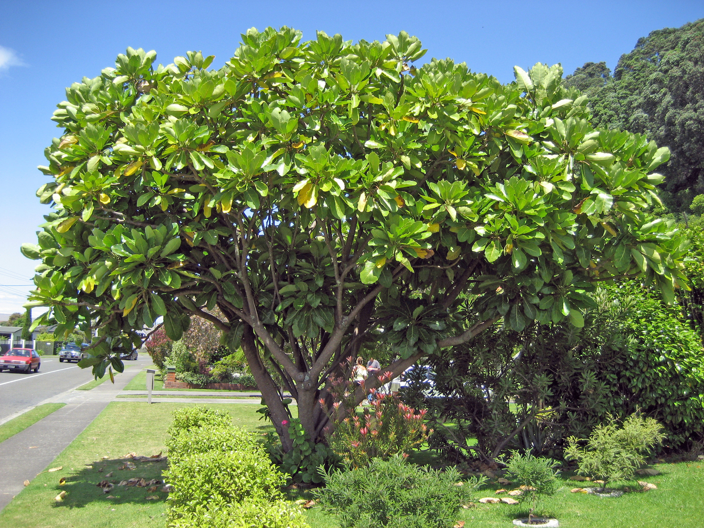 Puka tree (Meryta sinclairii), mature specimen growing in cultivation at Ōhope, Bay of Plenty, New Zealand